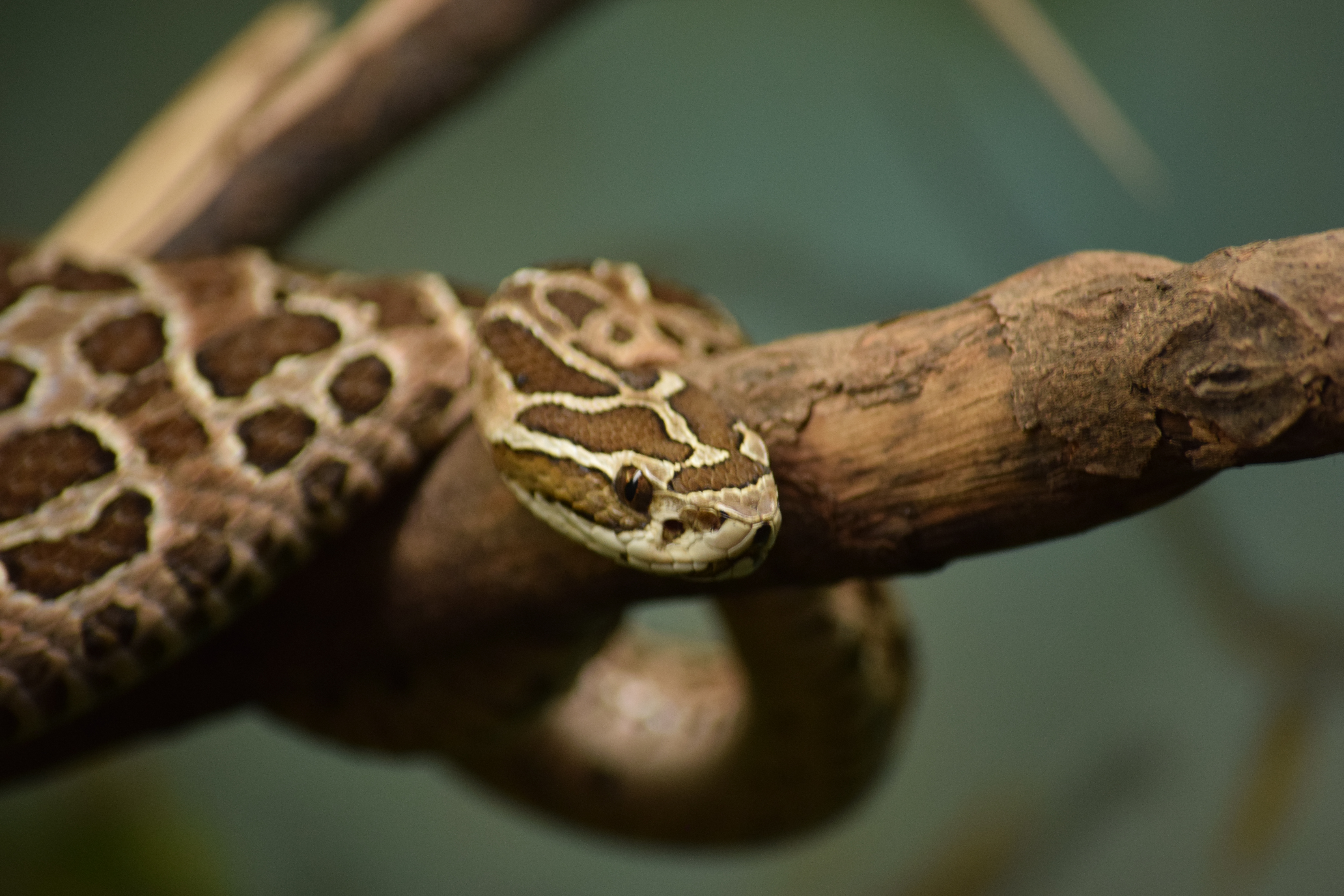 Bothrops alternatus in Instituto Butantan, São Paulo, Brazil.